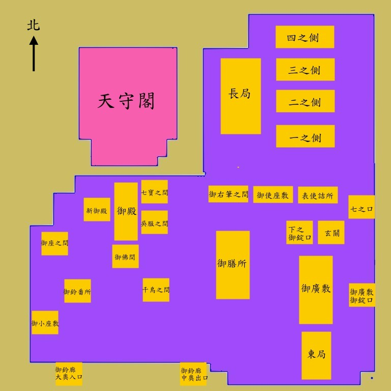 Floor plan of Ooku at Edo period. Created according the information from [1][2]. The floor plan is NOT in scale. The description words on the floor plan are written in Chinese. 大奧平面概念圖，據[3][4]繪畫。本平面圖並沒有按比例繪畫，各處所位置亦只為估計位置。 本圖說明文字以中文撰寫。